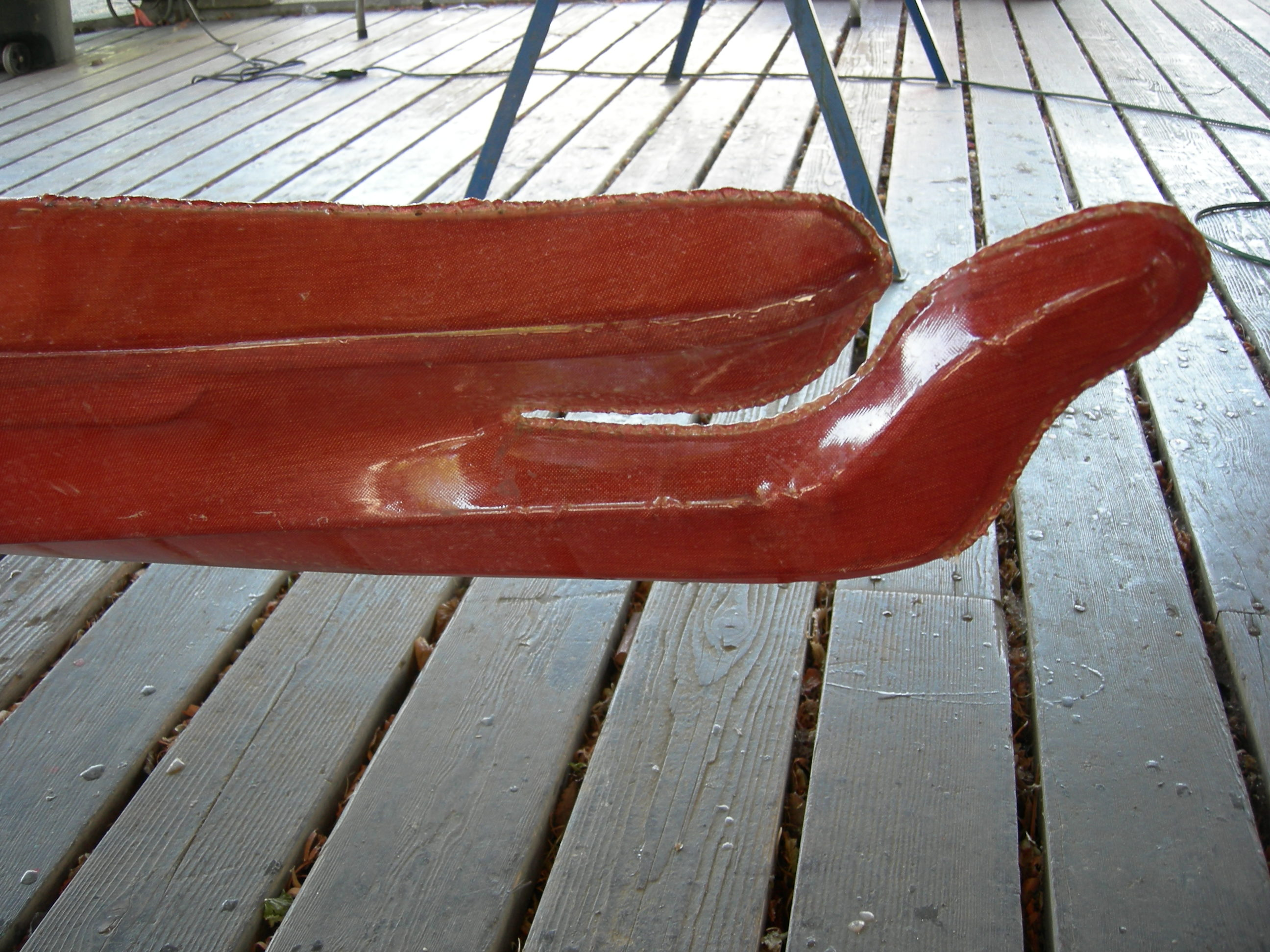 Bow of a kayak (baidarka), Center for Wooden Boats, Seattle, Washington